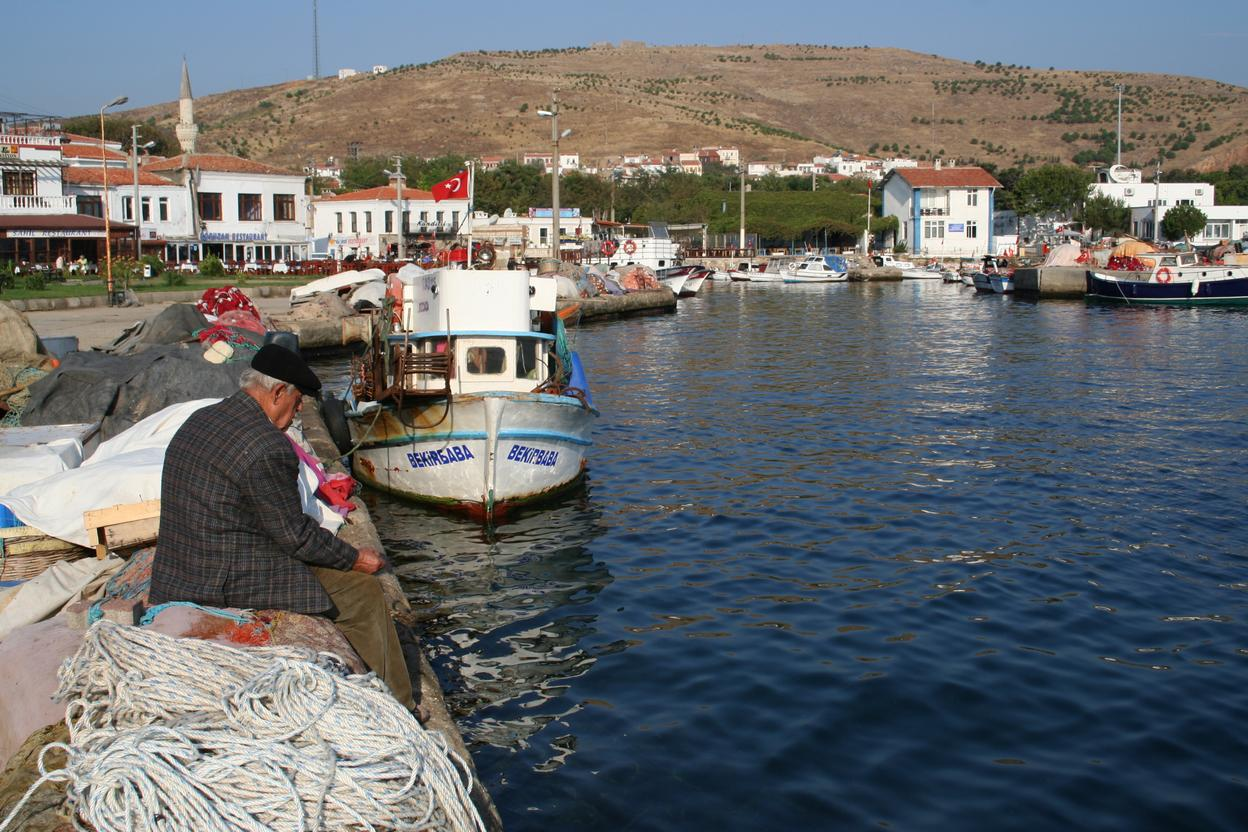 Port of Bozcaada